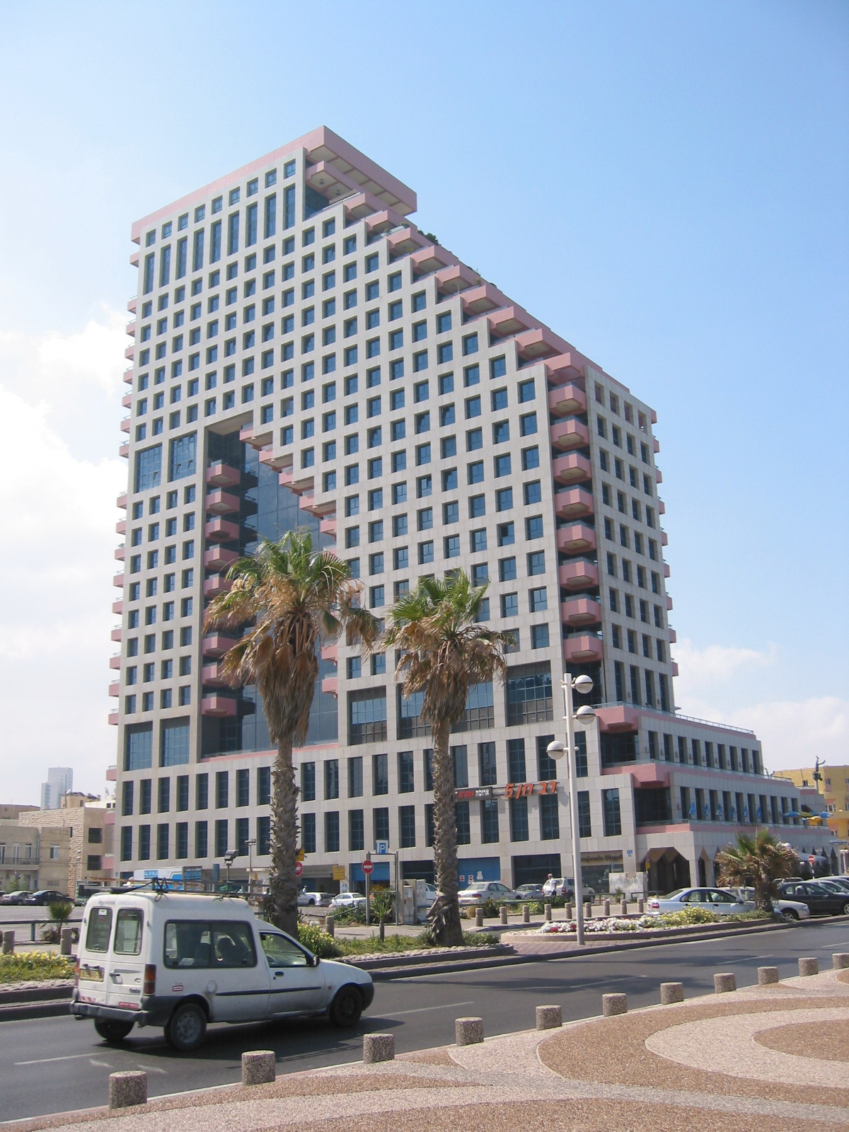 Migdal Ha'opera (The Opera Tower), Tel Aviv